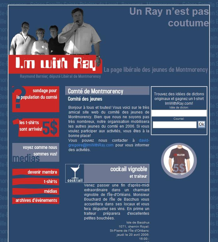 Page principale su site I'm With Ray